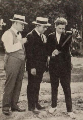 Still from the American drama film Sowing the Wind (1921) with film producers William Nicholas Selig and Louis B. Mayer and director John M. Stahl examine the film from one "take," on page 106 of the September 11, 1920 Exhibitors Herald.